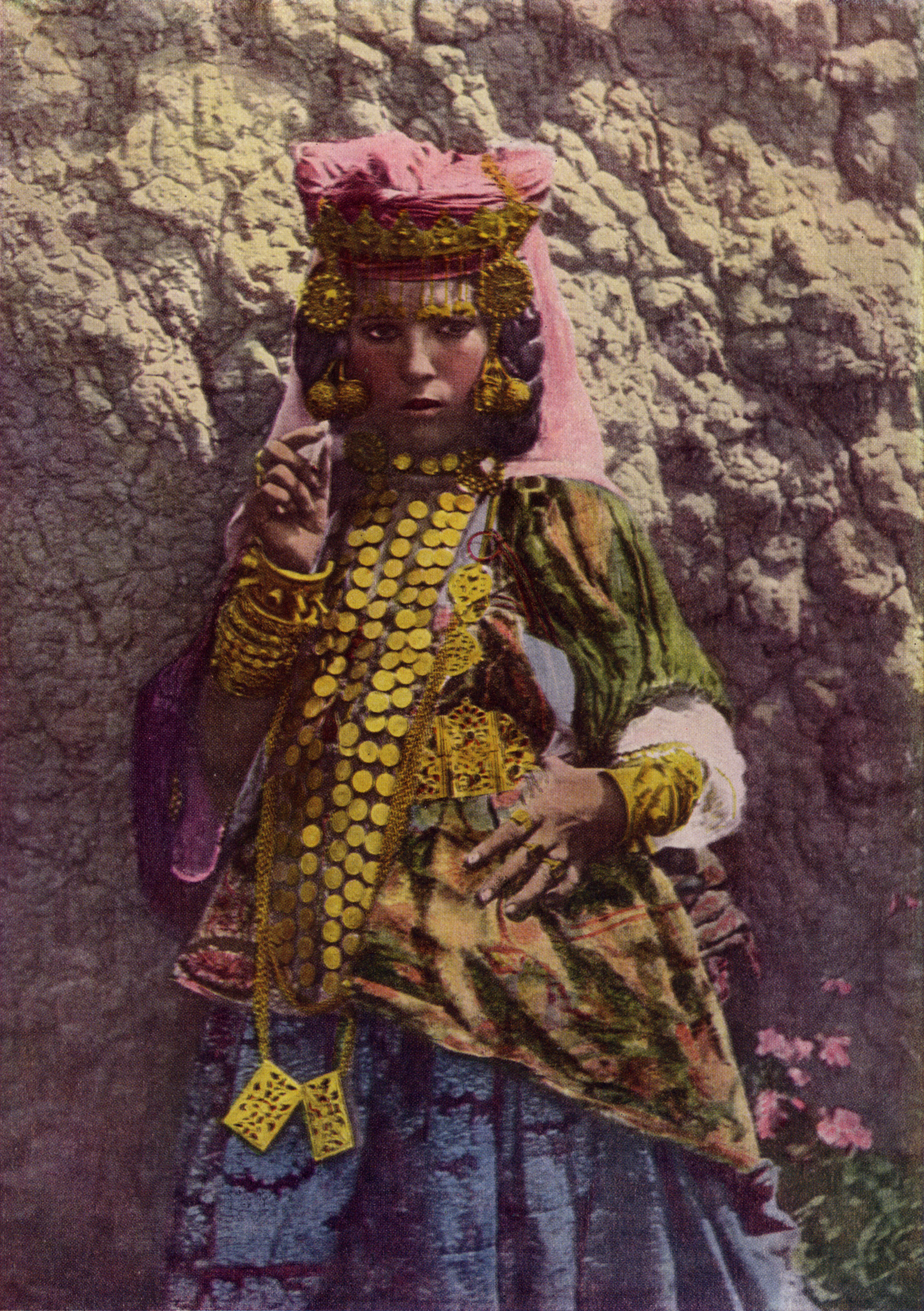 "AN ARAB SHOD WITH FIRE." She is a dancer of Algeria and the slow, throbbing music of the Orient is just as necessary for her happiness as the jewels and coins with which she adorns herself.